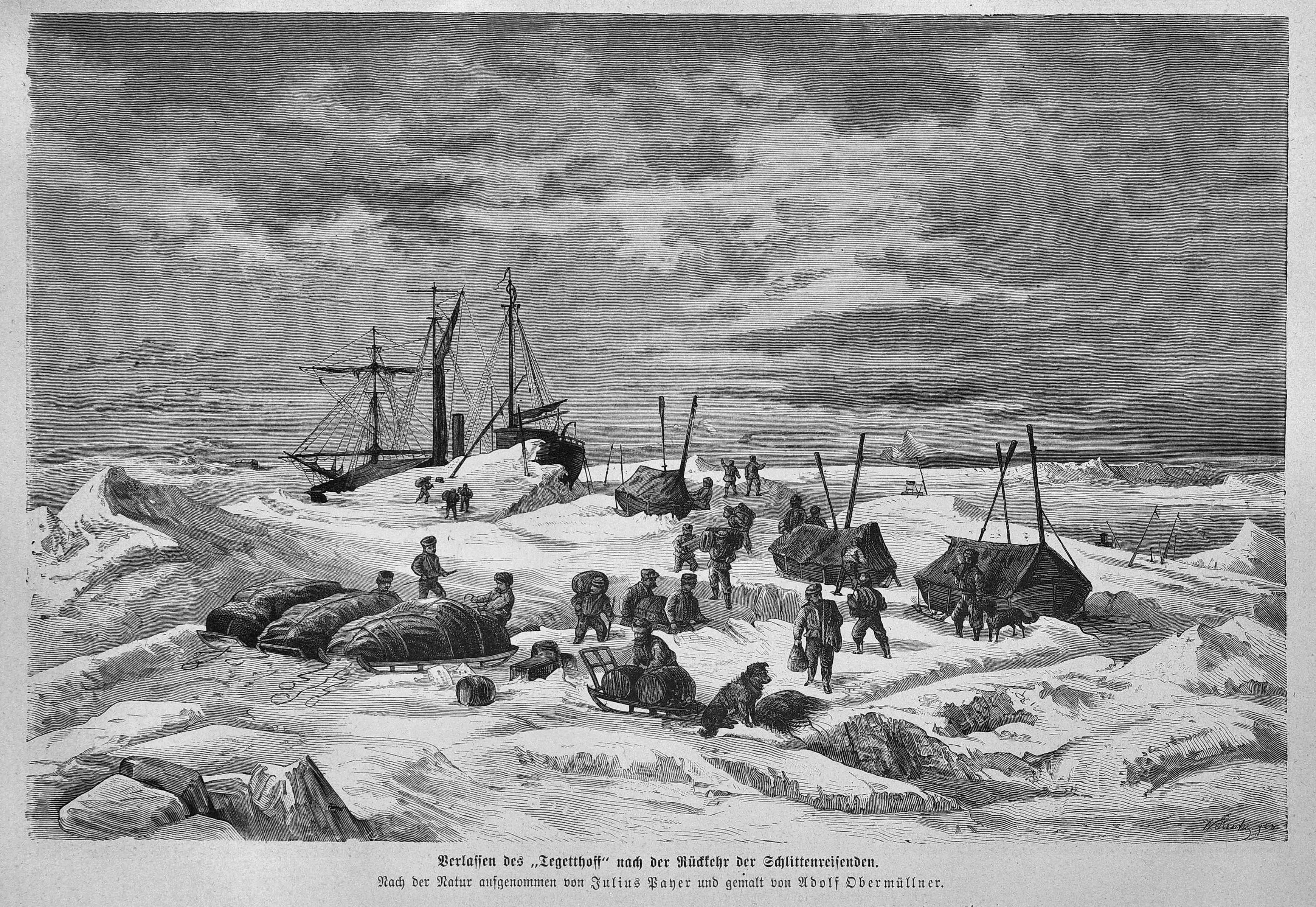 caption: "Verlassen des „Tegetthoff“ nach der Rückkehr der Schlittenreisenden. Nach der Natur aufgenommen von Julius Payer und gemalt von Adolf Obermüllner."